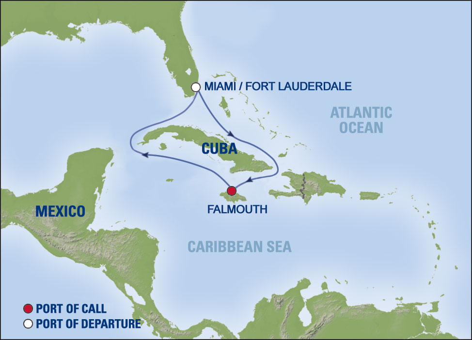 Route of 70000TONS OF METAL 2016